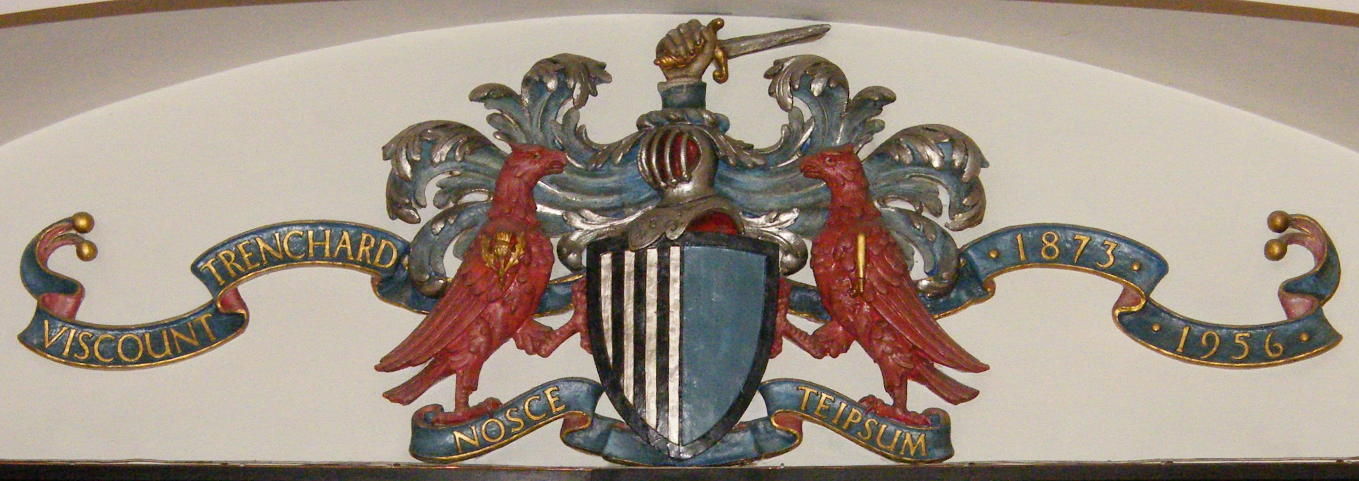 Lord Trenchard's armorial achievement as displayed in St. Clement Danes, London. The Latin motto Nosce Teipsum means "Know Thyself"